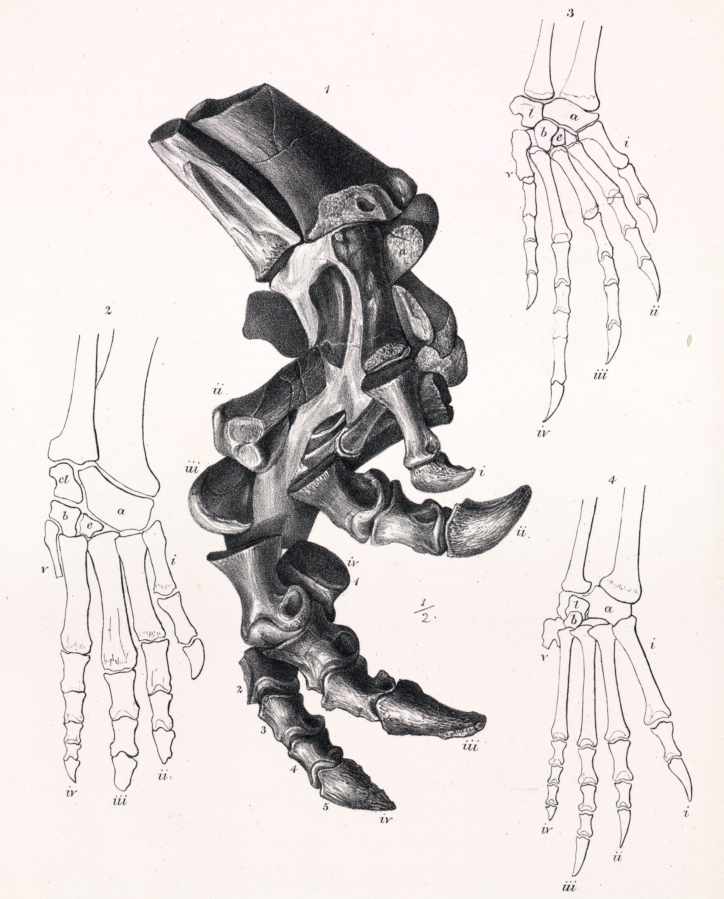 Scelidosaurus Harrisonii. Fig. 1. Side view of bones of the right hind foot; half natural size. Fig. 2. Reduced diagrammatic outline of bones of hind foot (Scelidosaurus). Fig. 3. Ib., ib. of a monitor lizard (Varanus). Fig. 4. Ib., ib. of a crocodile (Crocodilus).